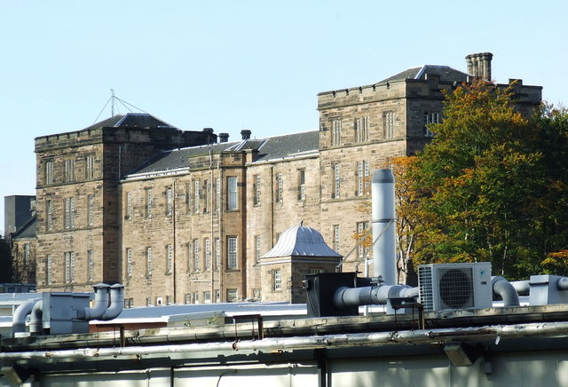 Gartnavel Royal Hospital The original hospital on the expansive Gartnavel complex. Viewed over the rooftop of the ambulance depot.